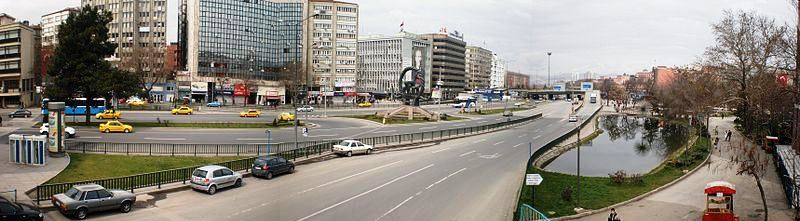 Sıhhiye Meydanı-Ankara-Panoramik